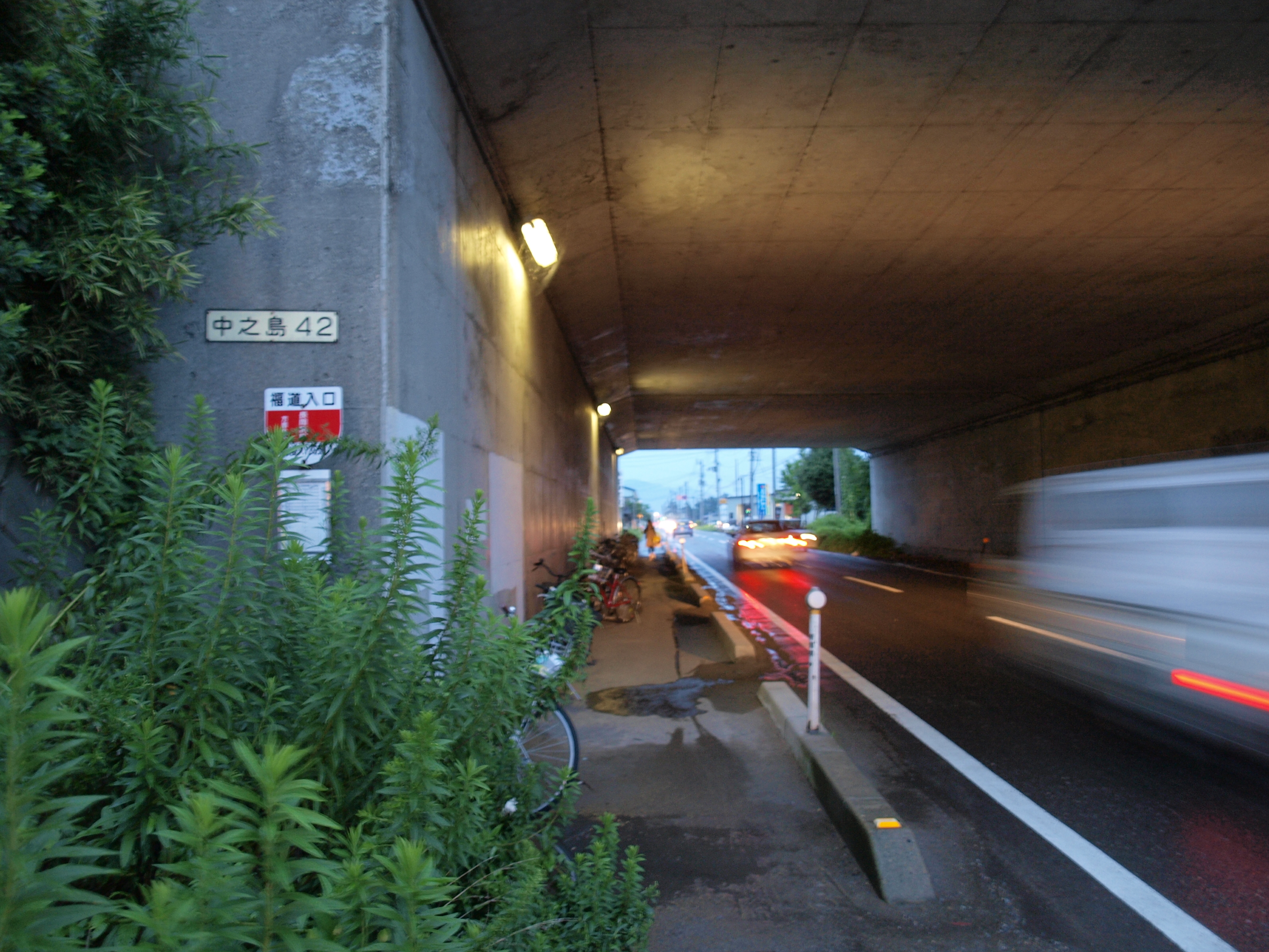 Fukumichi-Iriguchi Bus Stop, Nagaoka, Niigata Prefecture, Japan